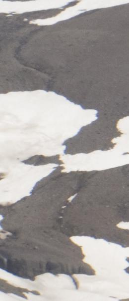 A slope of the Krzesanica Cliff at the north-eastern side of the Panorama Ridge near Point Thomas on King George Island, Antarctic. The bed of the Observatory Creek is visible on the slope.